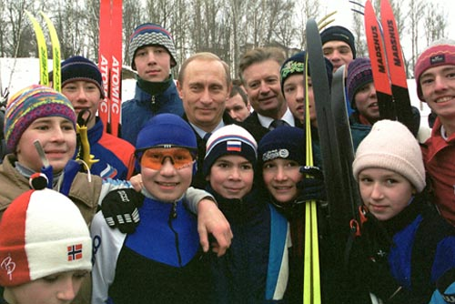 PLANERNAYA TRAININ CENTRE, THE MOSCOW REGION. President Putin inspects ski stadium. President Putin with young athletes.